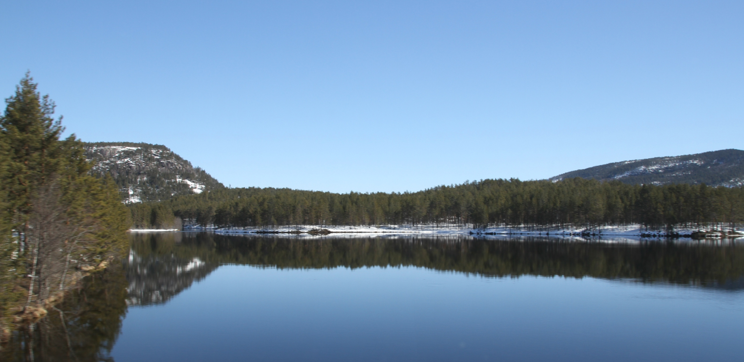 Image from central Nissedal municipality, south of Treungen township - southern Telemark county - Norway